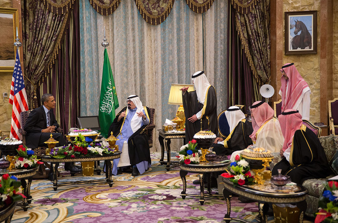 Barack Obama meets with King Abdullah bin Abdulaziz Al Saud